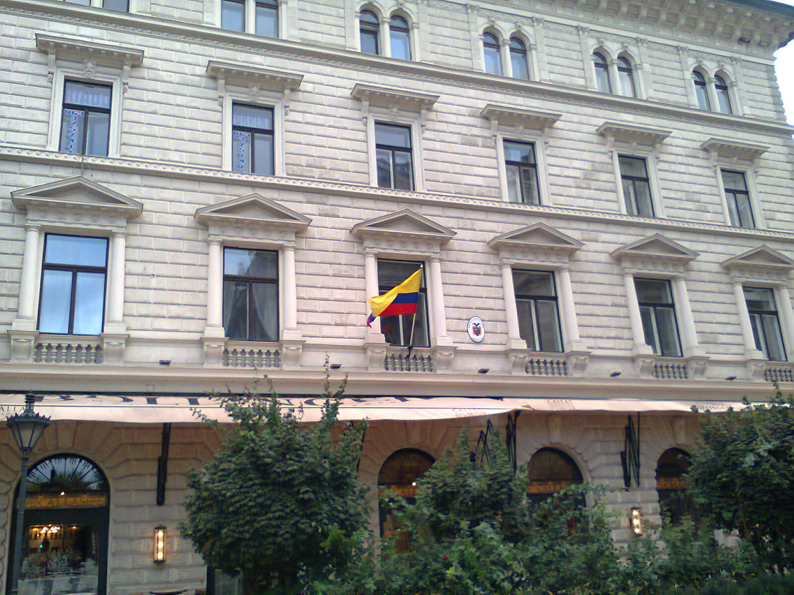 Embassy of Ecuador in Budapest